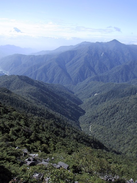 Looking south from Mount Hafu (Hafusan) in the border between Yamanashi & Saiatma Prefectures, Japan.